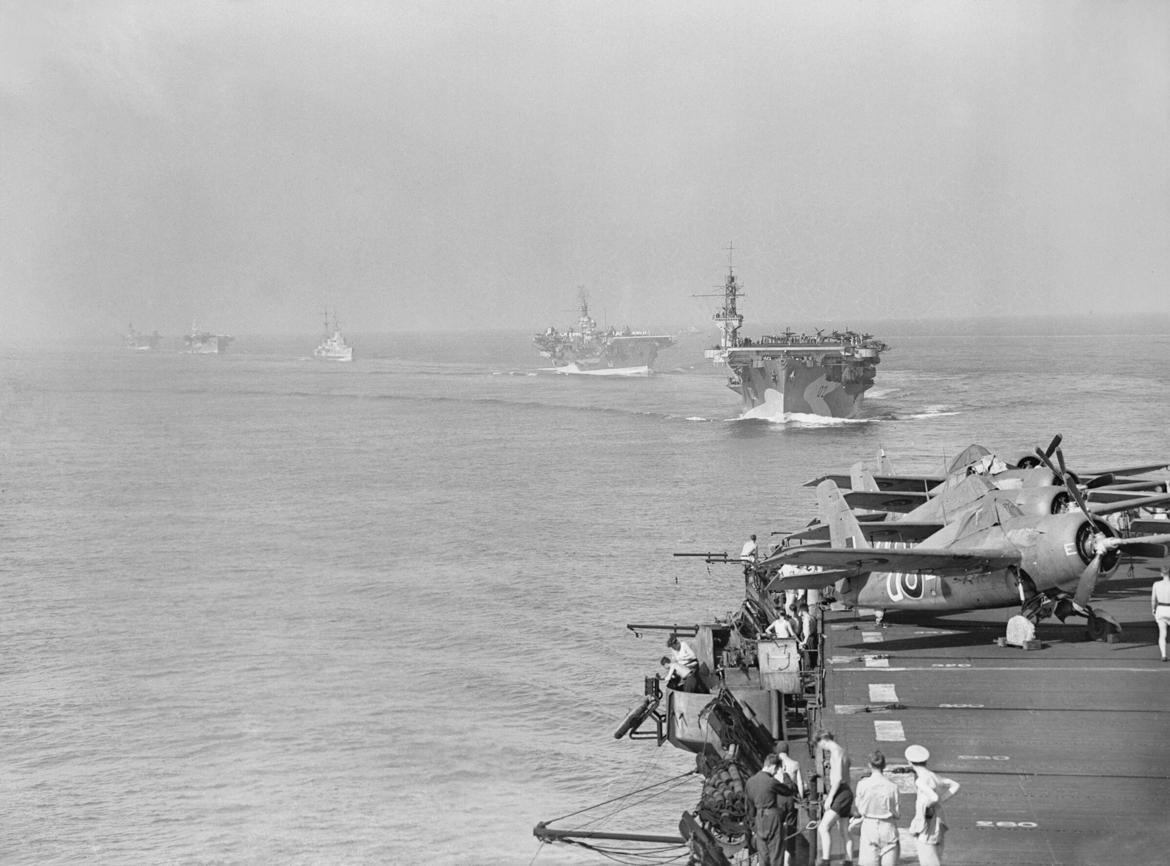 A view from HMS PURSUER of other assault carriers in the naval task force which took part in the landings in the south of France, 7 August 1944. Scene from HMS PURSUER of other assault carriers in the force which took part in the landings in the south of France on the 15 August 1944. Leading are HMS ATTACKER and HMS KHEDIVE. Three Grumman Wildcats can be seen parked on the edge of PURSUER's flight deck.